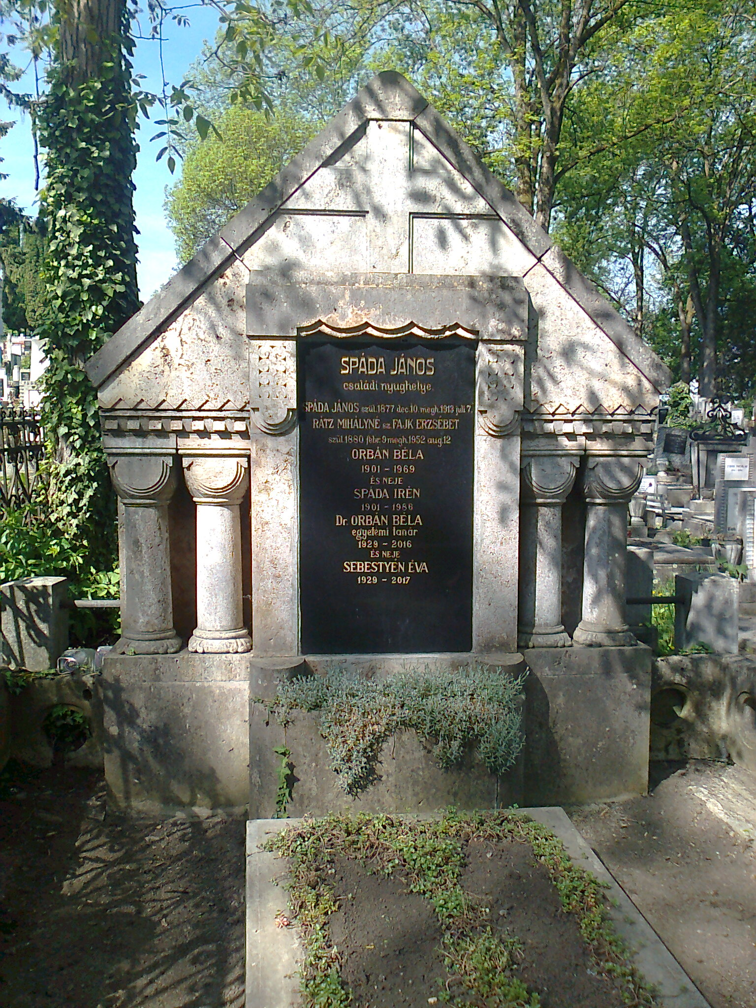 Grave of the mathematician Béla Orbán (1929–2016)